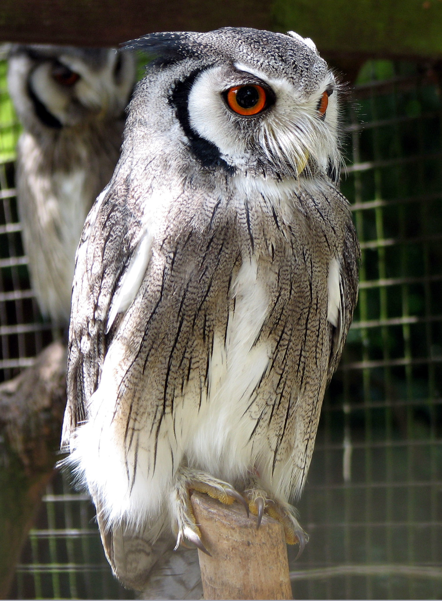 (? Northern) White-faced Owl Ptilopsis sp., at the Cotswold Wildlife Park, Oxfordshire, England.